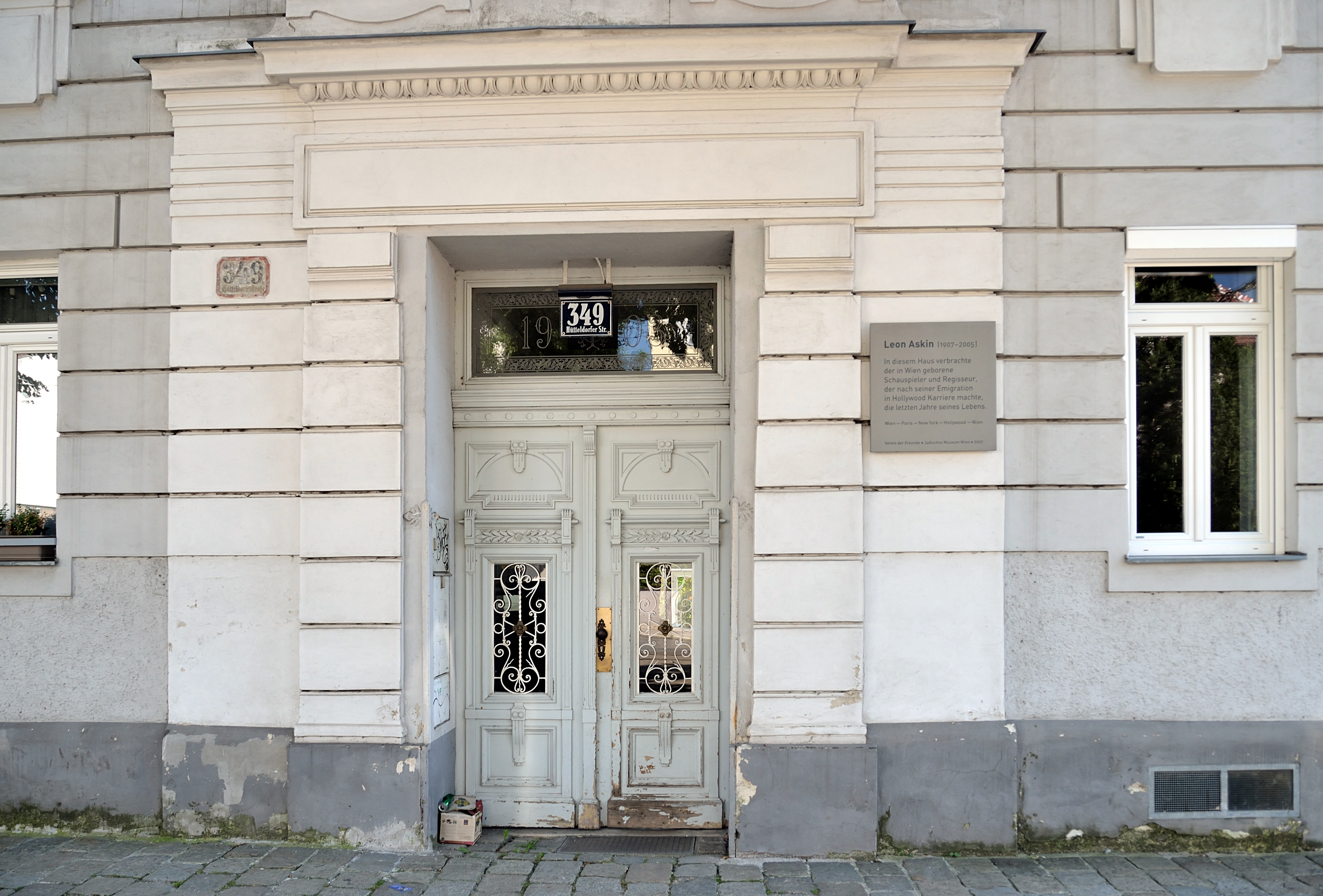 Plaque at Hütteldorfer Straße 349 for Leon Askin, who lived there.